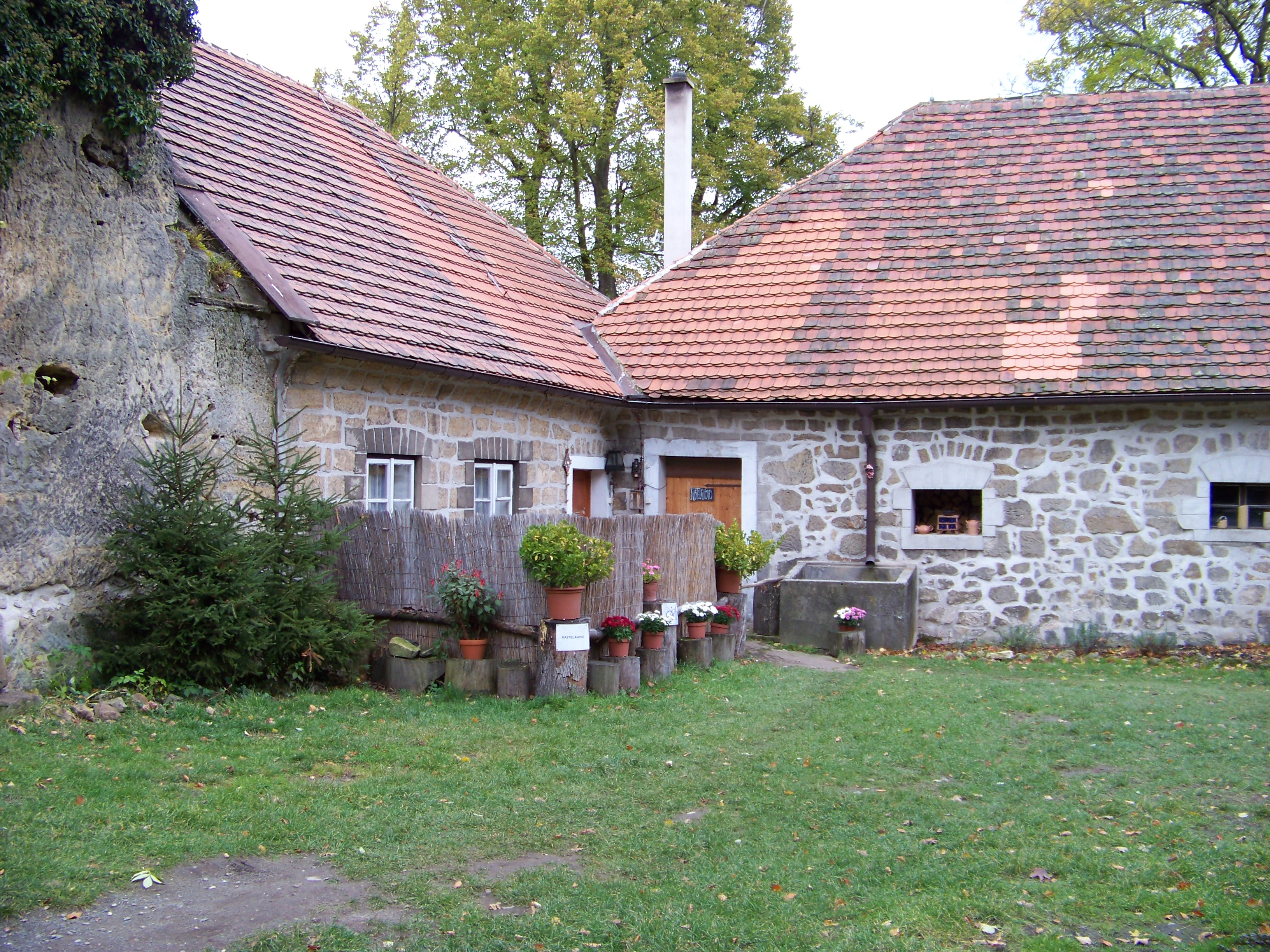 Houska Castle, Česká Lípa District, Liberec Region, the Czech Republic. - Google Maps - Google Earth